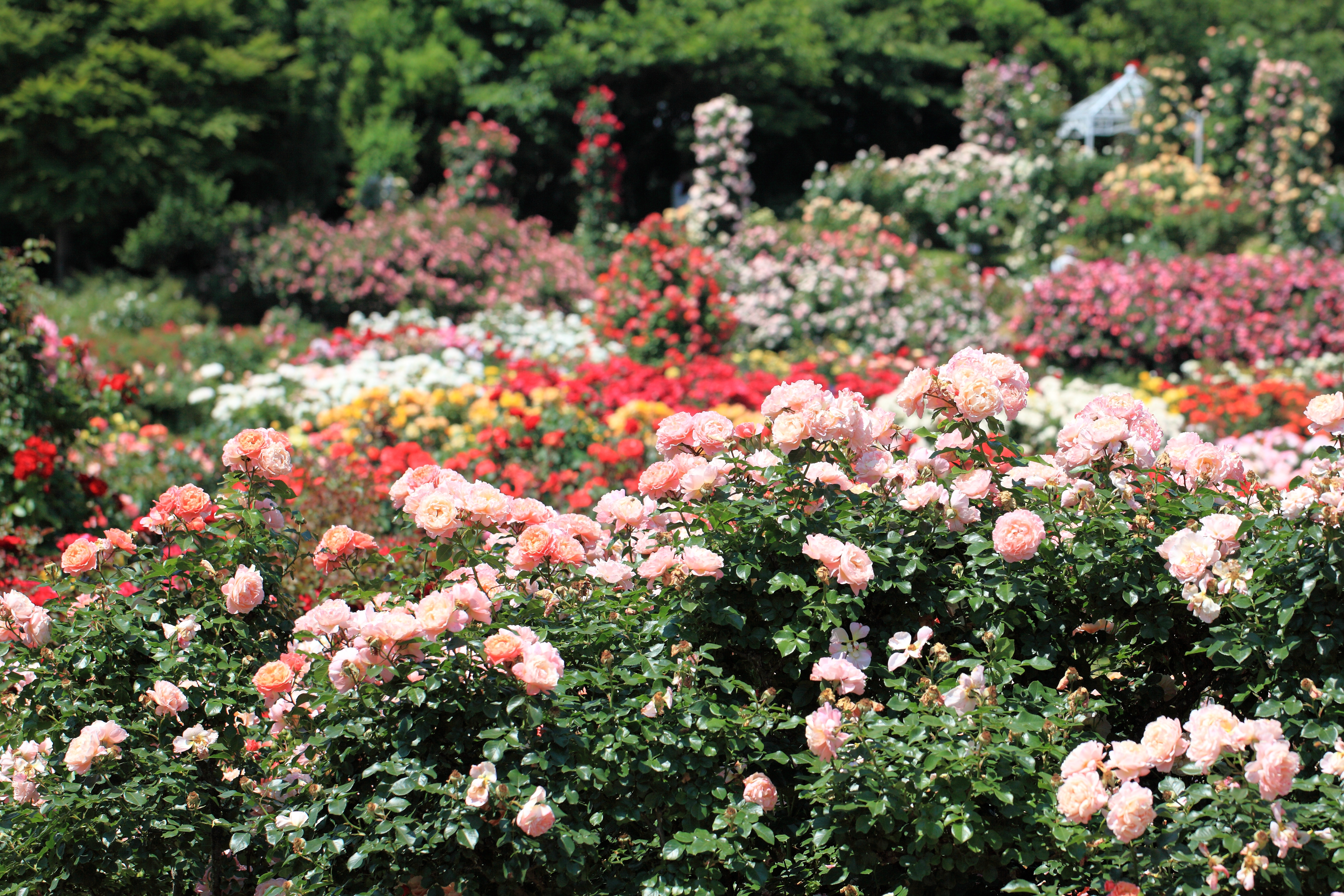 Keisei Rose Garden, Japan.